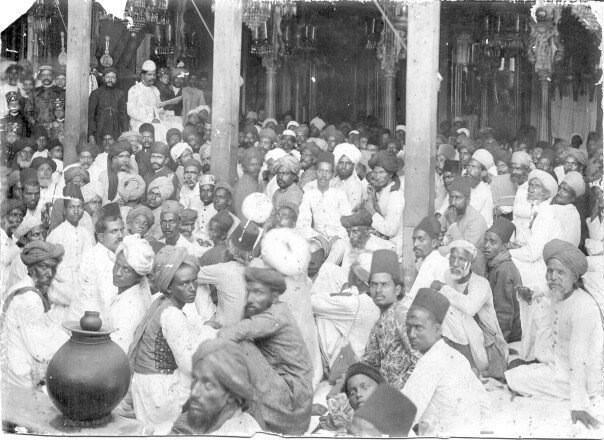 Mir Anis in Hyderabad in 1871; The photograph was taken in 1871 when Mir Anis visited Hyderabad.